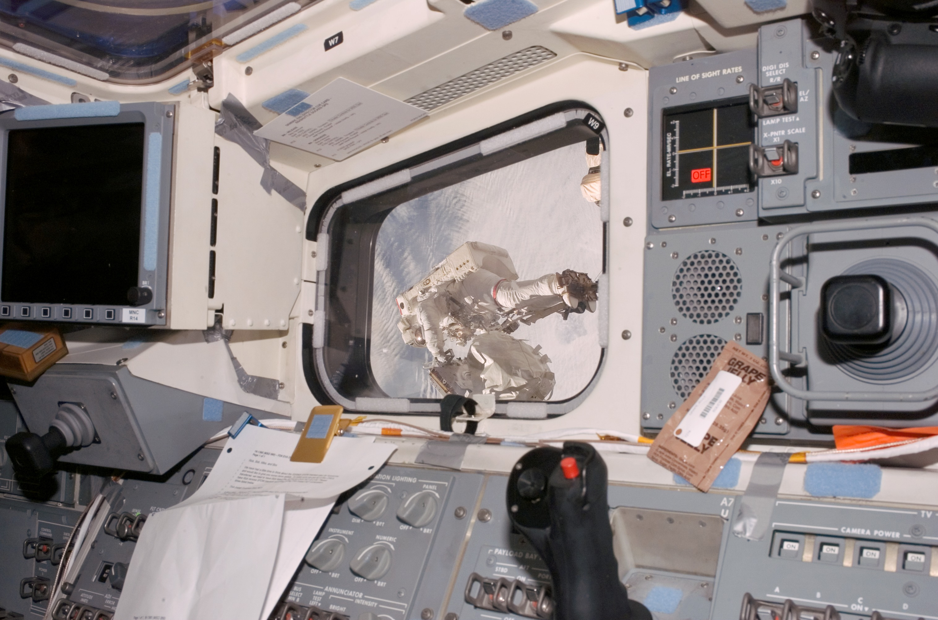 Visible through a window on Endeavour's aft flight deck, astronaut Rick Linnehan, STS-123 mission specialist, participates in the mission's third scheduled session of extravehicular activity (EVA) as construction and maintenance continue on the International Space Station. During the 6-hour, 53-minute spacewalk, Linnehan and astronaut Robert L. Behnken (out of frame), mission specialist, installed a spare-parts platform and tool-handling assembly for Dextre, also known as the Special Purpose Dextrous Manipulator (SPDM). Among other tasks, they also checked out and calibrated Dextre's end effector and attached critical spare parts to an external stowage platform. The new robotic system is scheduled to be activated on a power and data grapple fixture located on the Destiny laboratory on flight day nine.